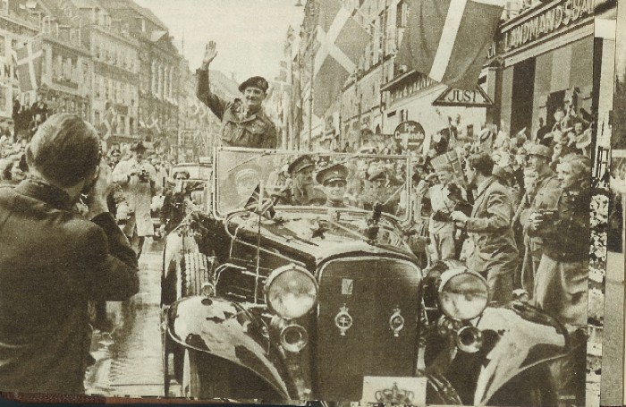 Dato: 12. Maj 1945 Se flere billeder her: Download and rights: More about The Museum of Danish Resistance (Frihedsmuseet)